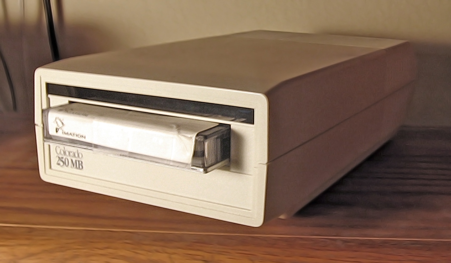 A Colorado brand tape drive with magnetic tape sticking out of it like an 8-track. Tape drives were popular from the late 80s until the late 90s when faster technology (such as CDRs) superseded tape drives. Image created by GURoadrunner and licensed as GDFL. The tape itself is a QIC (Quarter Inch Cartridge).